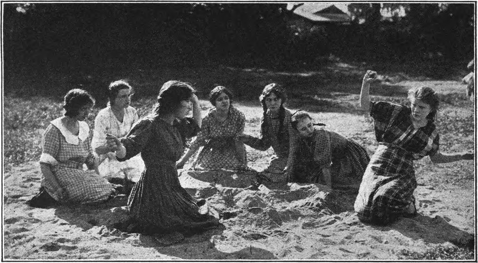 Photograph of Mae Marsh while shooting "Hoodoo Ann" (1916) movie from the "Screen acting" (1921) book. Description under the image in the "Screen acting" book: "A long shot, the author, and some screen beginners in the days of "Hoodoo Ann." ". Title at the "Illustrations" page (page XIII): "The Author and Some Beginners".